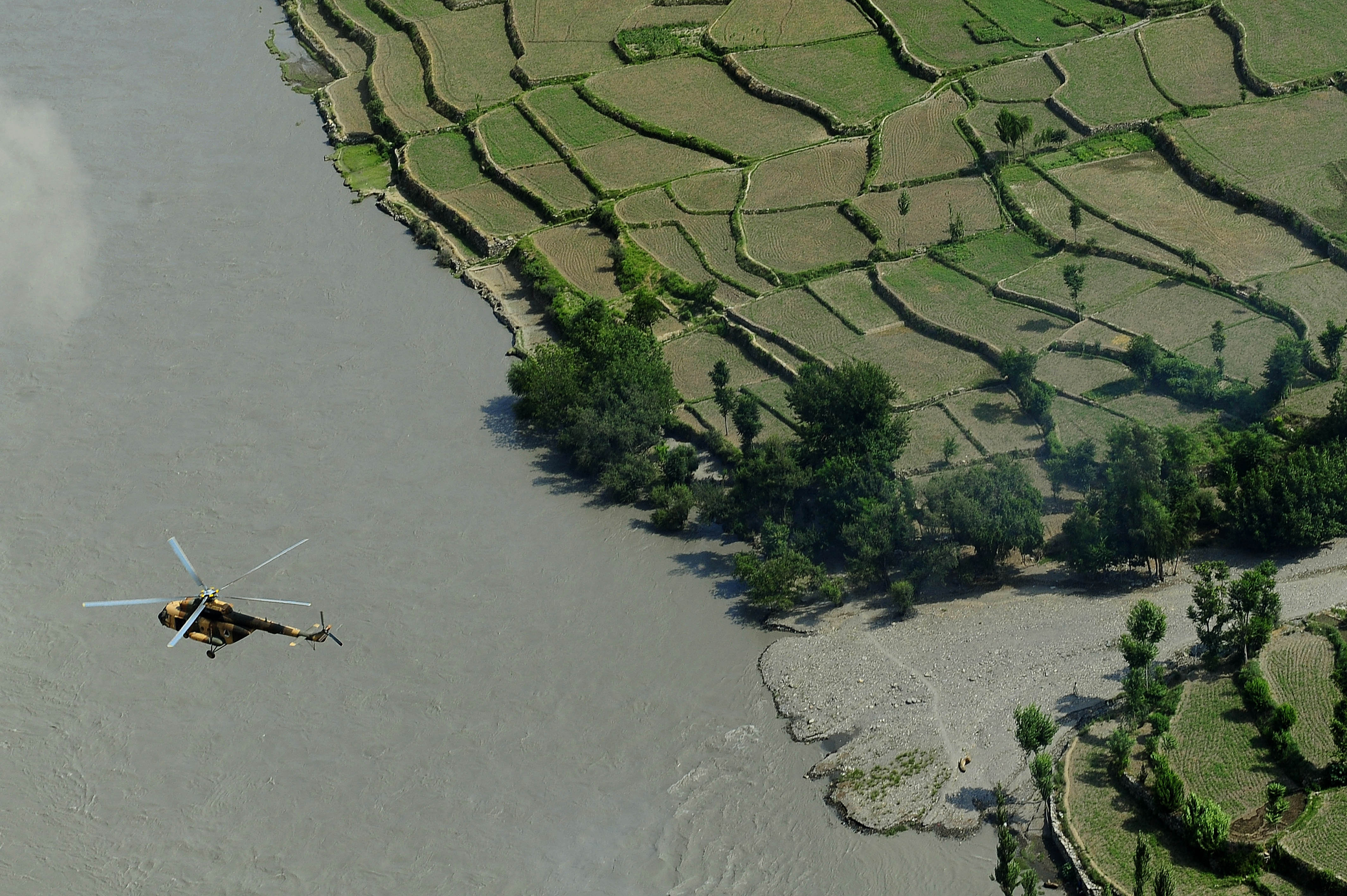 An Mi-17 helicopter formation prepares to land and refuel after a resupply run July 8, 2012, at Forward Operating Base Bostick in Kunar province, Afghanistan. The joint mission of the Afghan air force and U.S. Air Force Mi-17 helicopter crews was to resupply Afghan forces in remote locations. (U.S. Air Force photo by Staff Sgt. Quinton Russ/Released) (Photo ID: 626471)